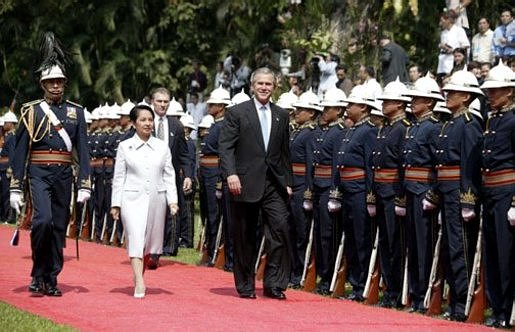 President George W. Bush and Philippine president Gloria Arroyo review troops during a welcoming ceremony at Malacanang Palace in Manila, Philippines, Saturday, Oct. 18, 2003. source